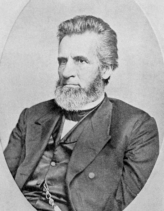 Portrait of Judge Ezra Graves, of Herkimer County, New York